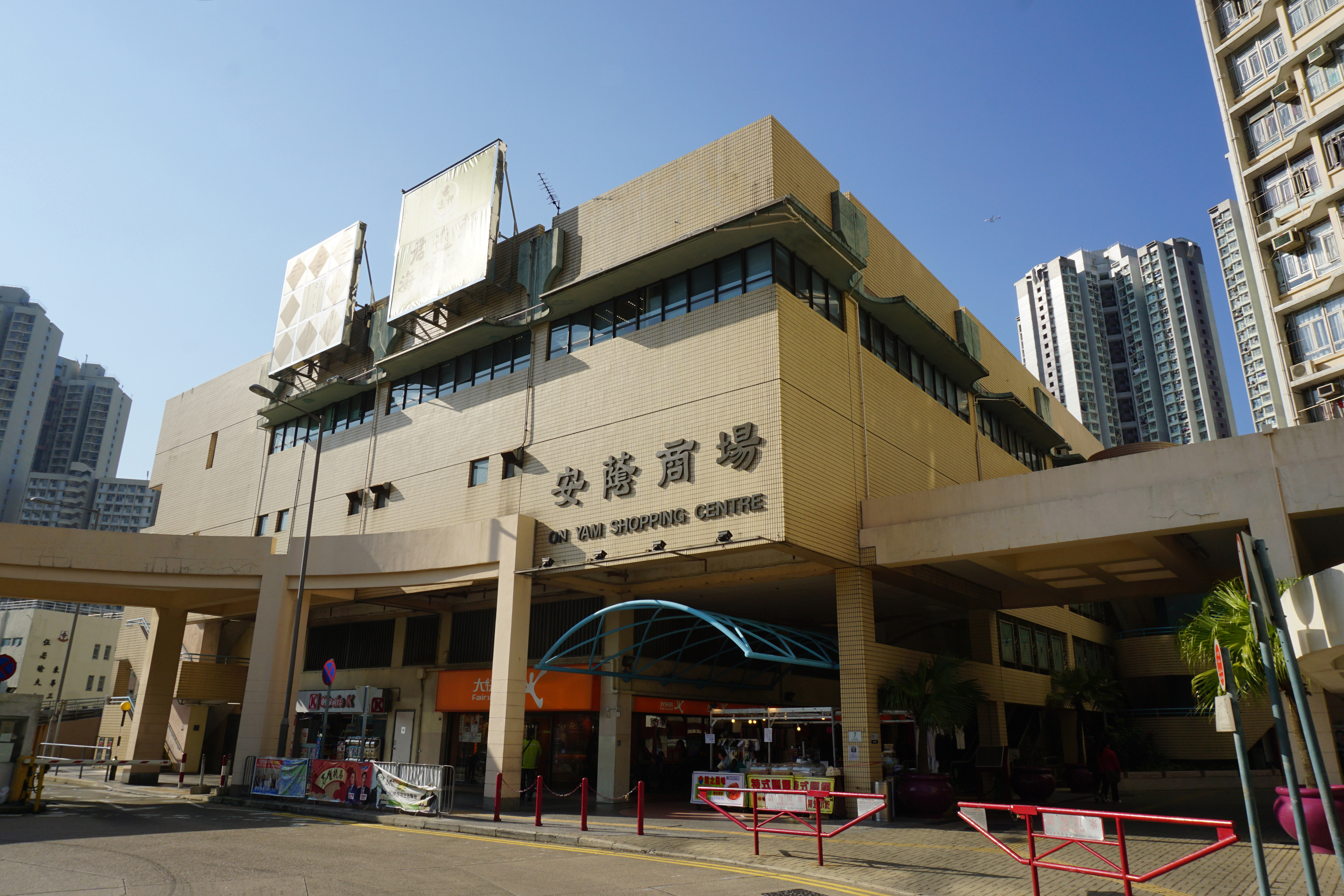 On Yam Shopping Centre in Shek Yam, Hong Kong.